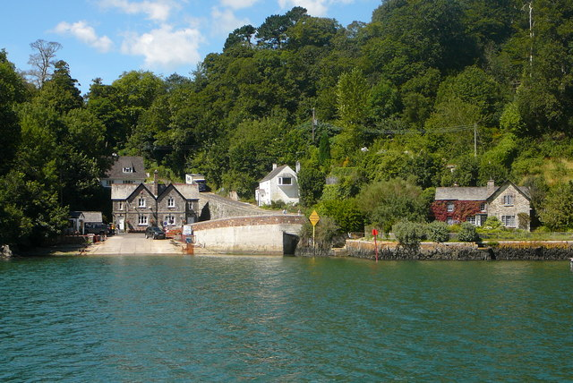 King Harry Passage King Harry Passage, (Trelissick side), from the ferry.